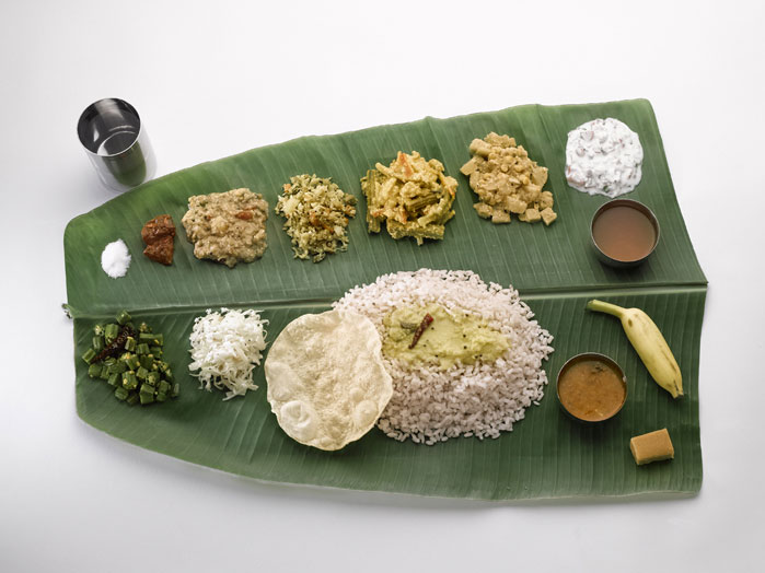 lunch that is in tamil nadu with variable varieties